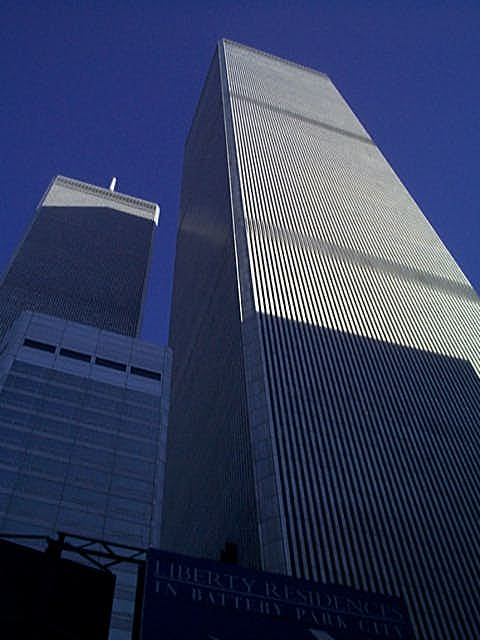 View of the two World Trade Center buildings in New York City. Picture taken on New Year's Day 2001.World Trade Center January 1 2001